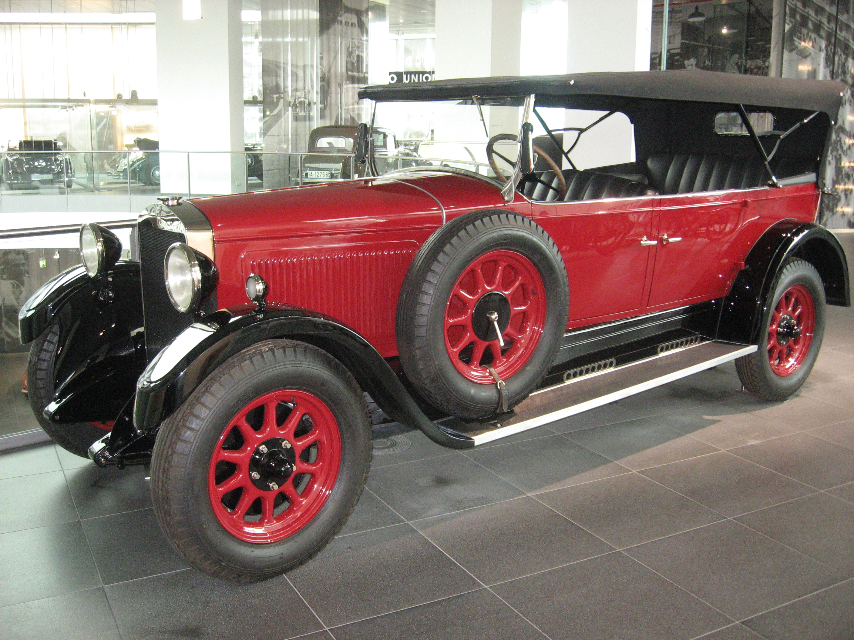 Subject: Horch 303, the first Horch with an 8 cylinder engine Author: Luc106 Date:June 13th, 2011 Place/Country: Audi Museum, Ingolstadt (Germany) I release all rights in the public domain.